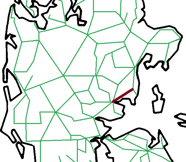 Map of railways in Middle Jutland in Denmark with the private railway Horsens-Odder Jernbane in brown.